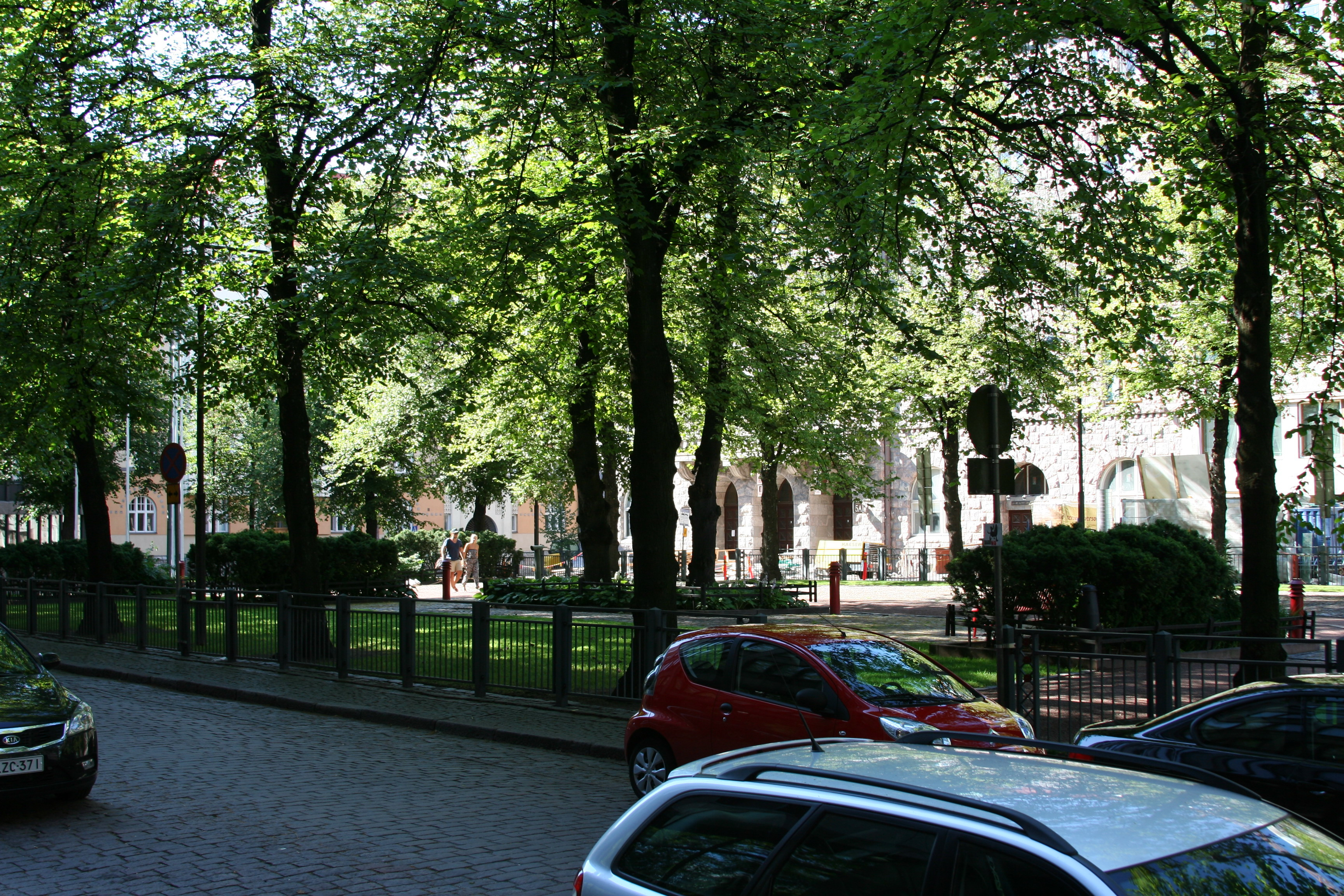 Paasivuori park, Siltasaari, Helsinki, Finland